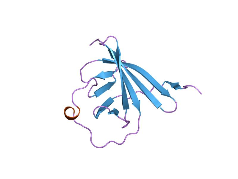 Cartoon representation of the molecular structure of protein registered with 1jsg code.